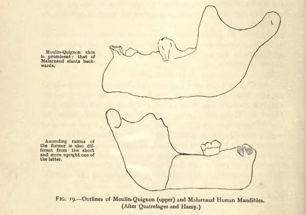 Figure(s): 19